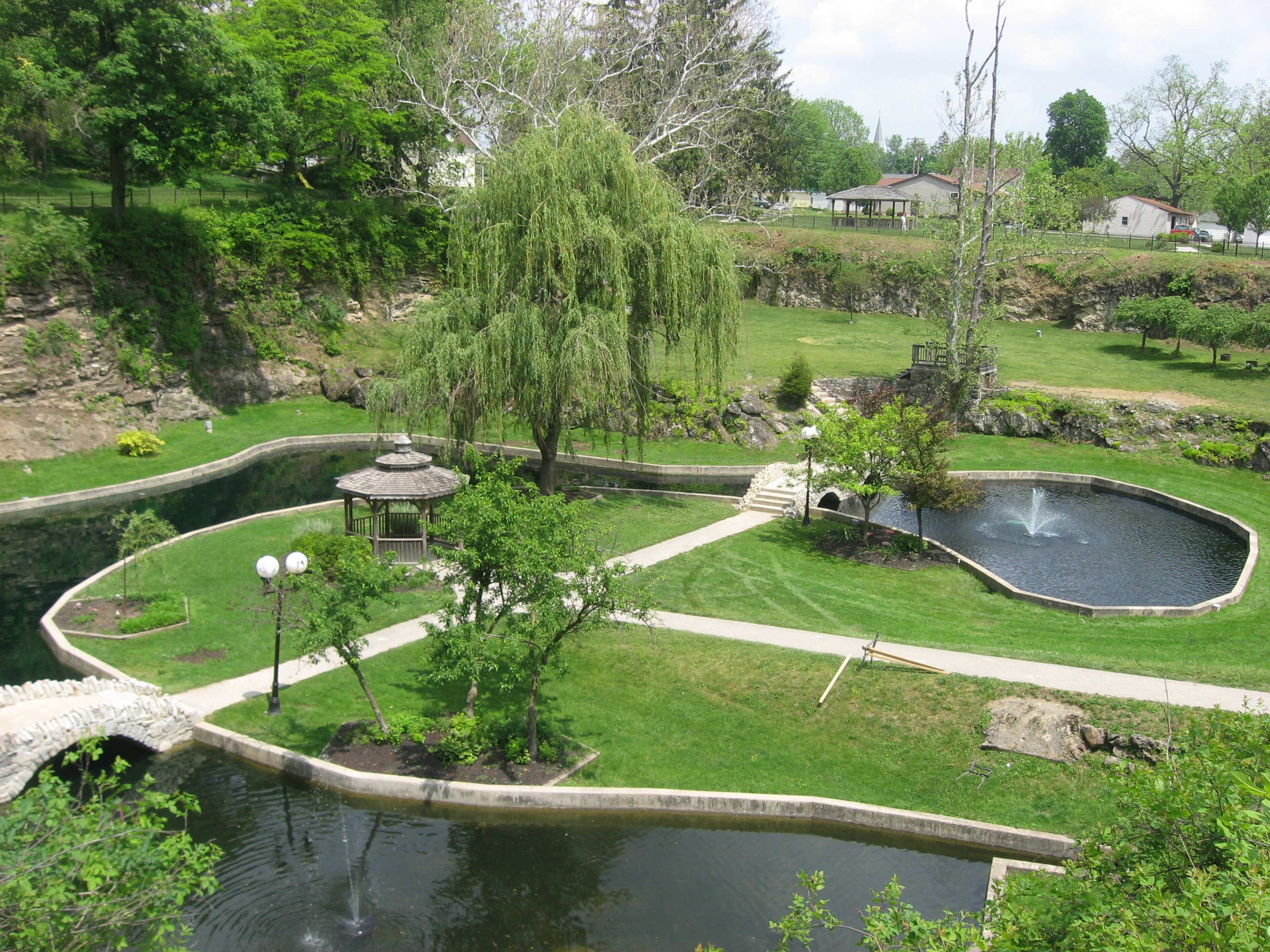 Overview from the southwest of the Sunken Gardens, located below Park Drive on the western side of Huntington, Indiana, United States. Dug in 1923, the Gardens are listed on the National Register of Historic Places.